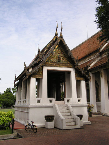 Mungkalapisek Hall, Bangkok National Museum (Wang na), Bangkok , Thailand